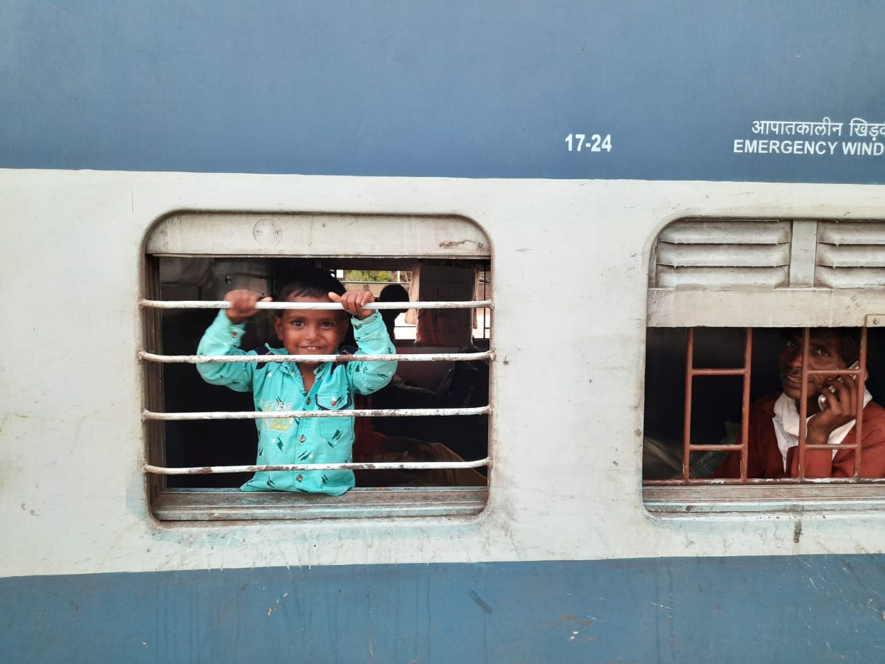 Migrants with families heading towards their native states on Shramik Special Trains